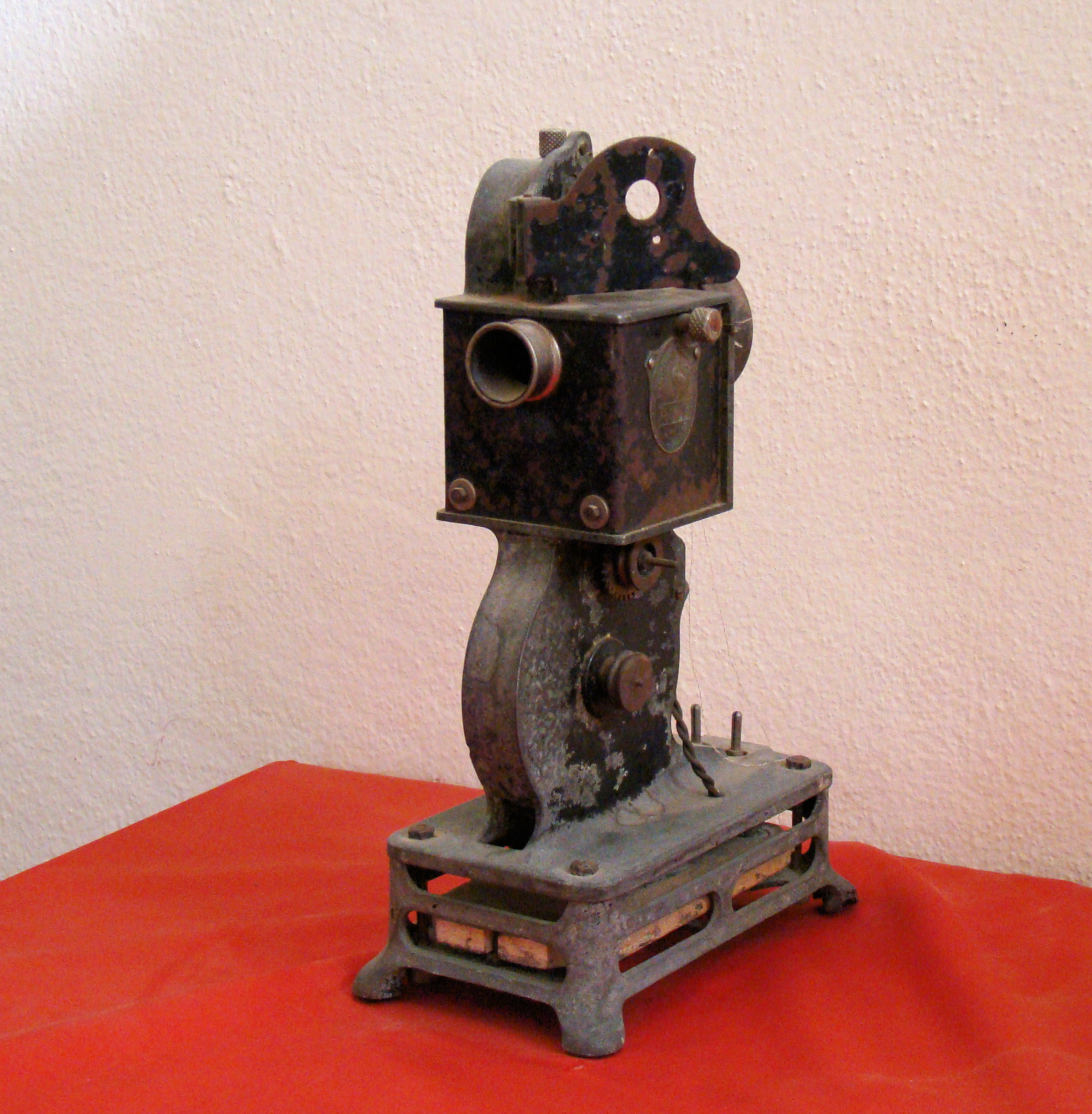 A movie projector Pathé-Baby on display in the Cinema Museum in Ouarzazate, Morocco. The projector is from the 1920's and was made by the Pathe company for projection of 9,5mm film with no sound.